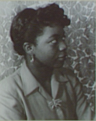 Title: Portrait of Pearl Primus Abstract/medium: 1 photographic print : gelatin silver.